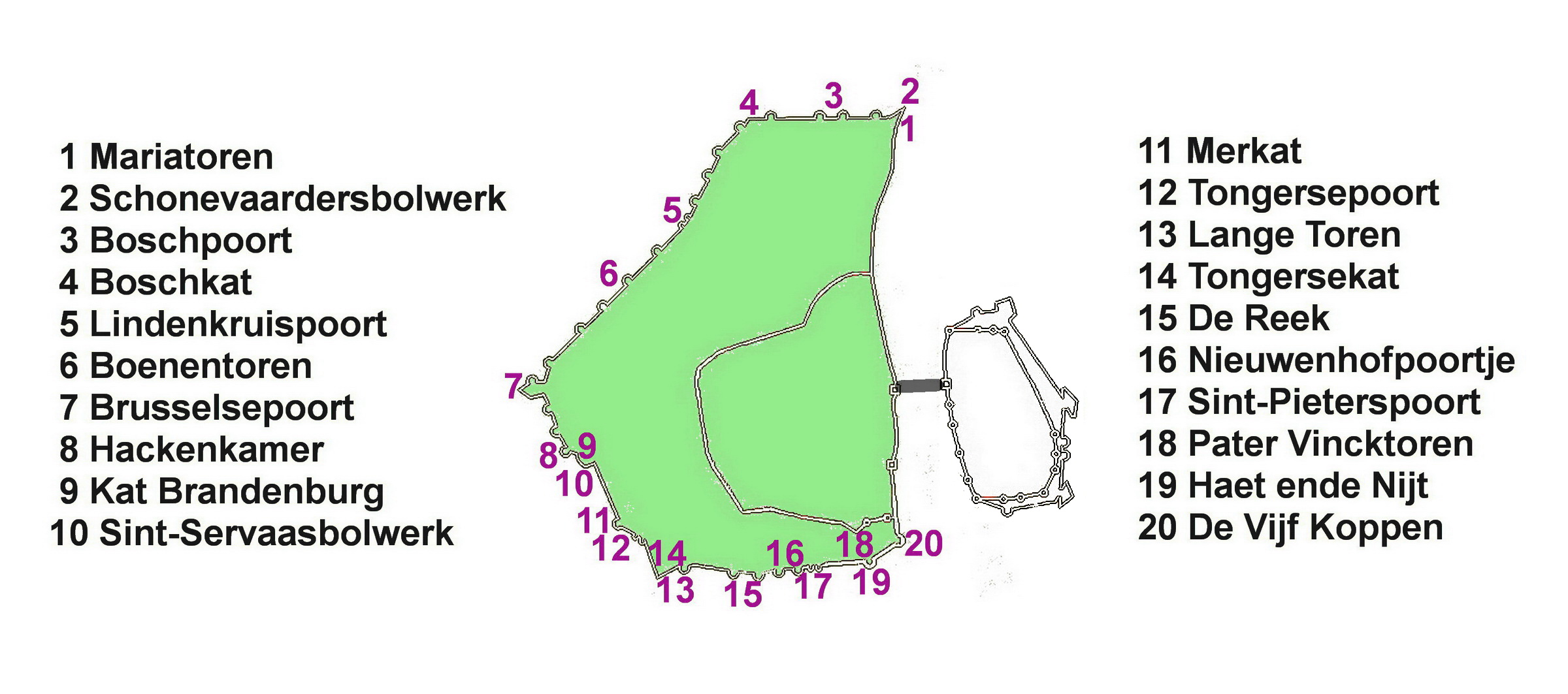 Stylized map of the medieval city of Maastricht, the Netherlands, showing the second medieval city wall (ca 1375). The bridge accross the river Meuse connects the two parts of the city. The names of gates, towers and bullwarks on the left bank are given.